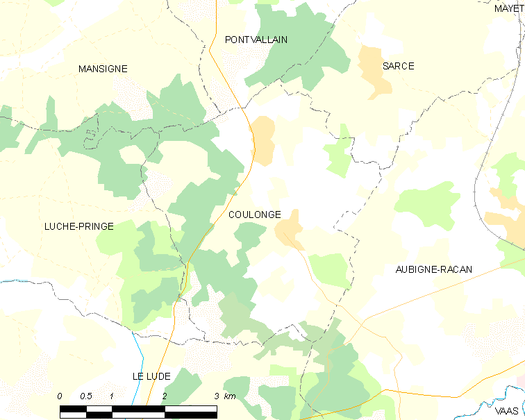 Map of French municipality